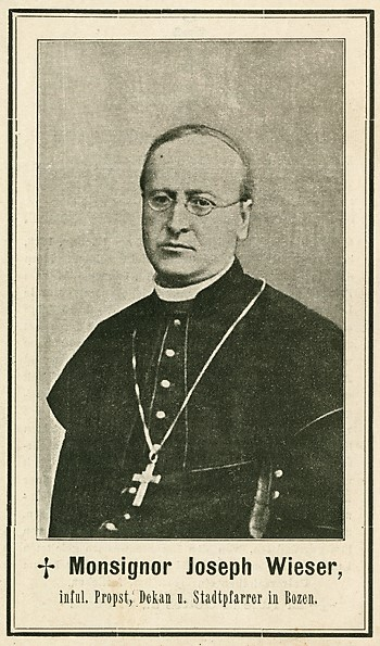 Obituary of Ms Joseph Wieser, vicar of Bozen 1899